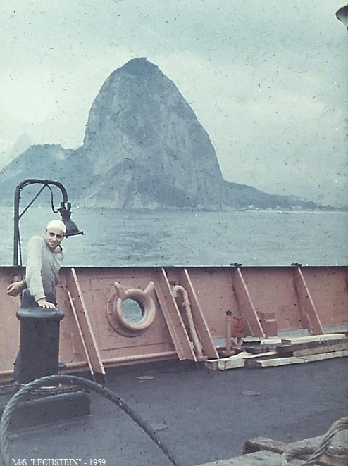 MS Lechstein bound for Rio de Janeiro, A/B in front of the sugarloaf mountain.